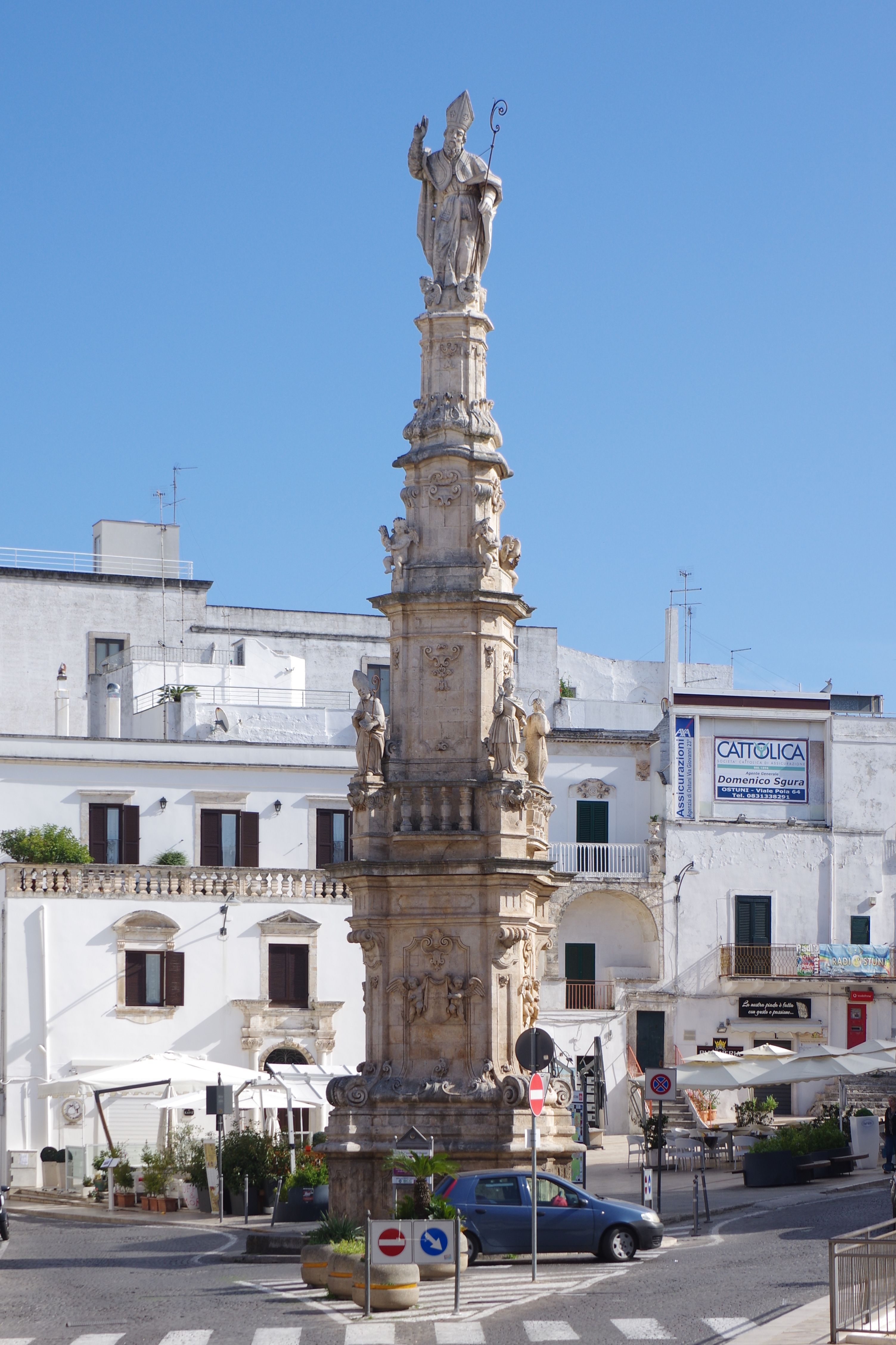 Italy, Ostuni, Guglia di Sant'Oronzo